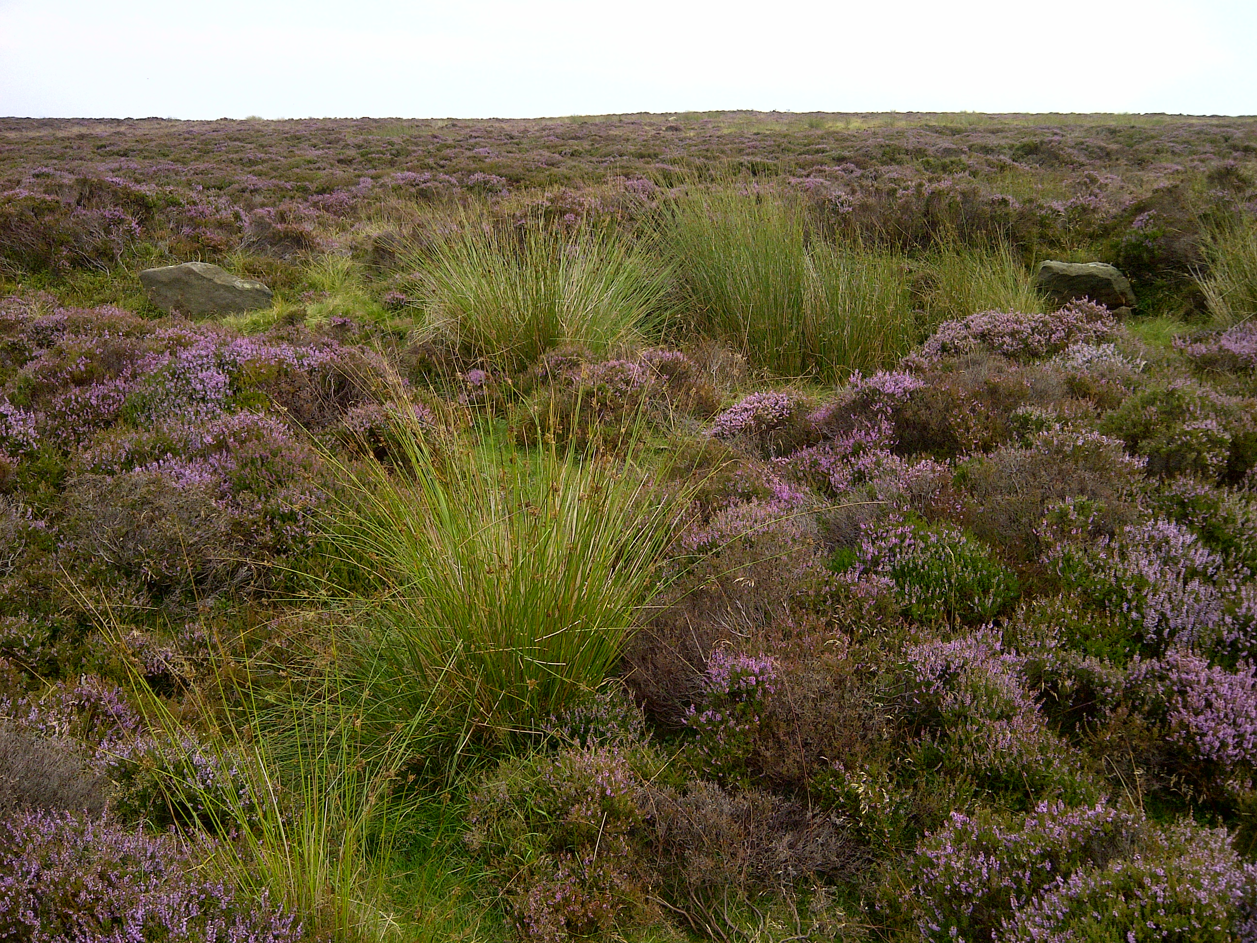 Looking North East-ish across Eyam Moor from Wet Withens stone circle.